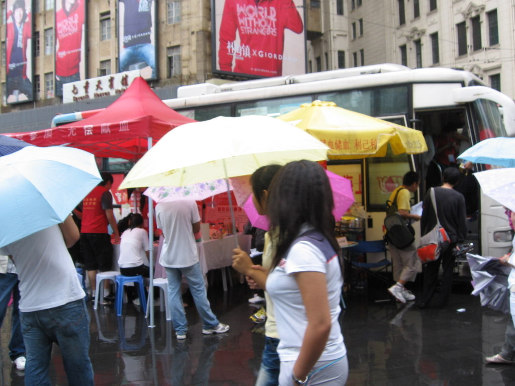 BloodDonationBus on East Nanjing Road,Shanghai,China,Oct. 1st,2009,the 60th National Day of the People's Republic of China